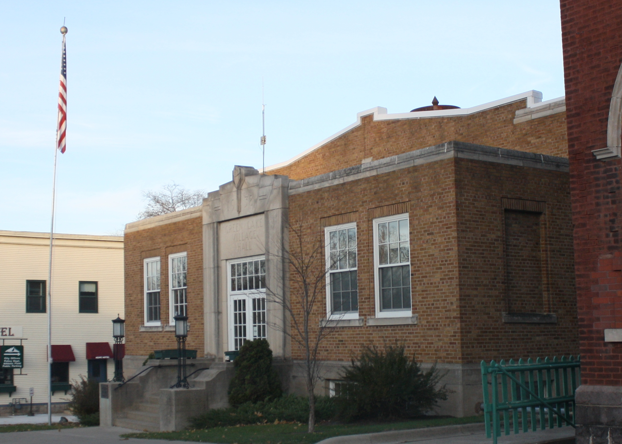 The Green Lake Village Hall in Green Lake, Wisconsin, listed on the National Register of Historic Places.